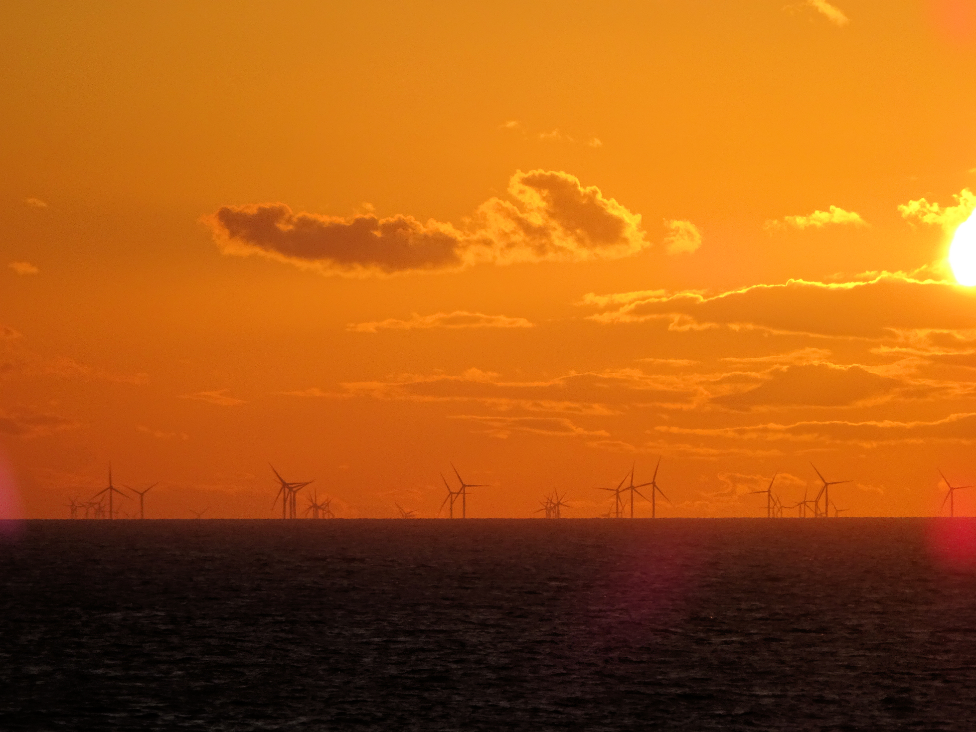 Sunset behind Galloper windfarm with Inner Gabbard windfarm in the background